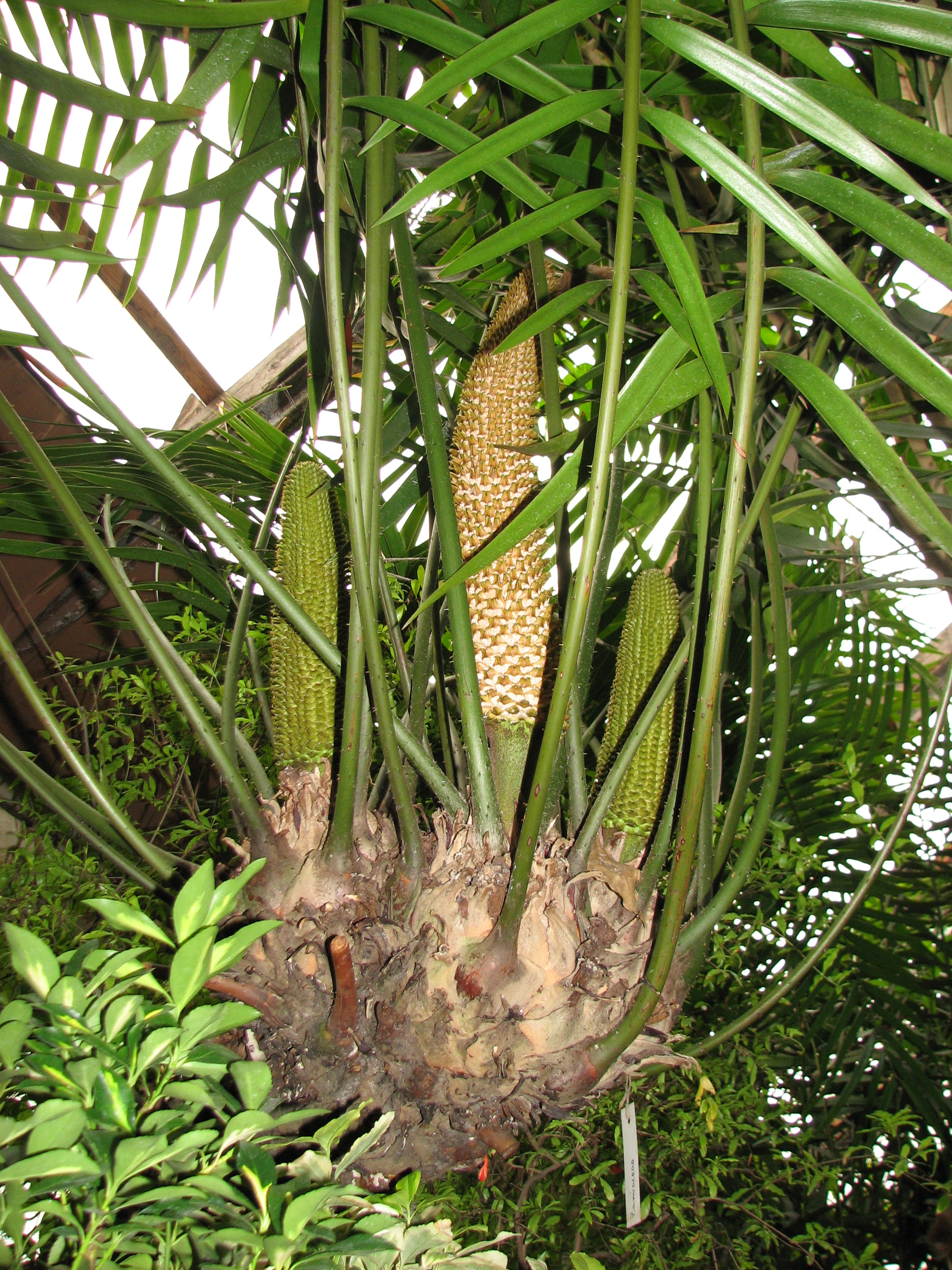 Greenhouse in the "Aptekarsky Ogorod" (Botanical Garden of Moscow State University) on Prospekt Mira, Moscow. Ceratozamia mexicana; strobiluses.